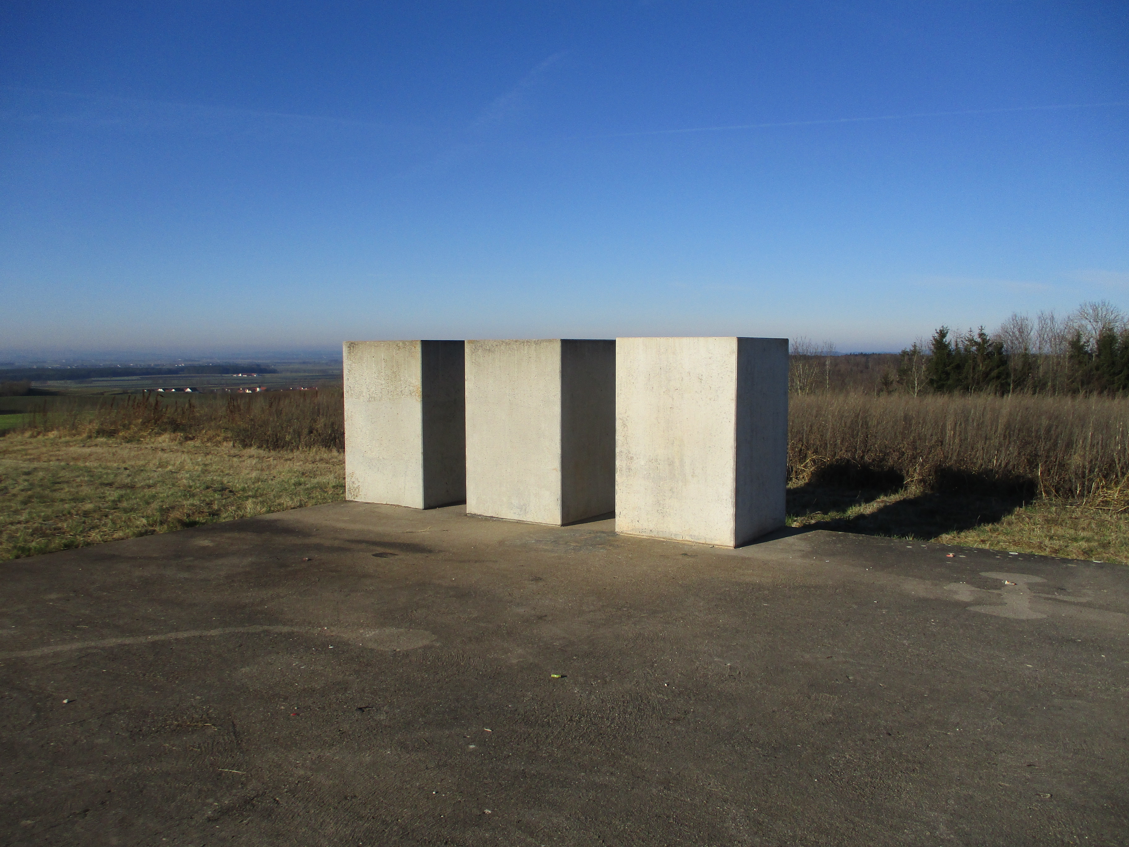 The Time Pyramide, Wemding, Bavaria.